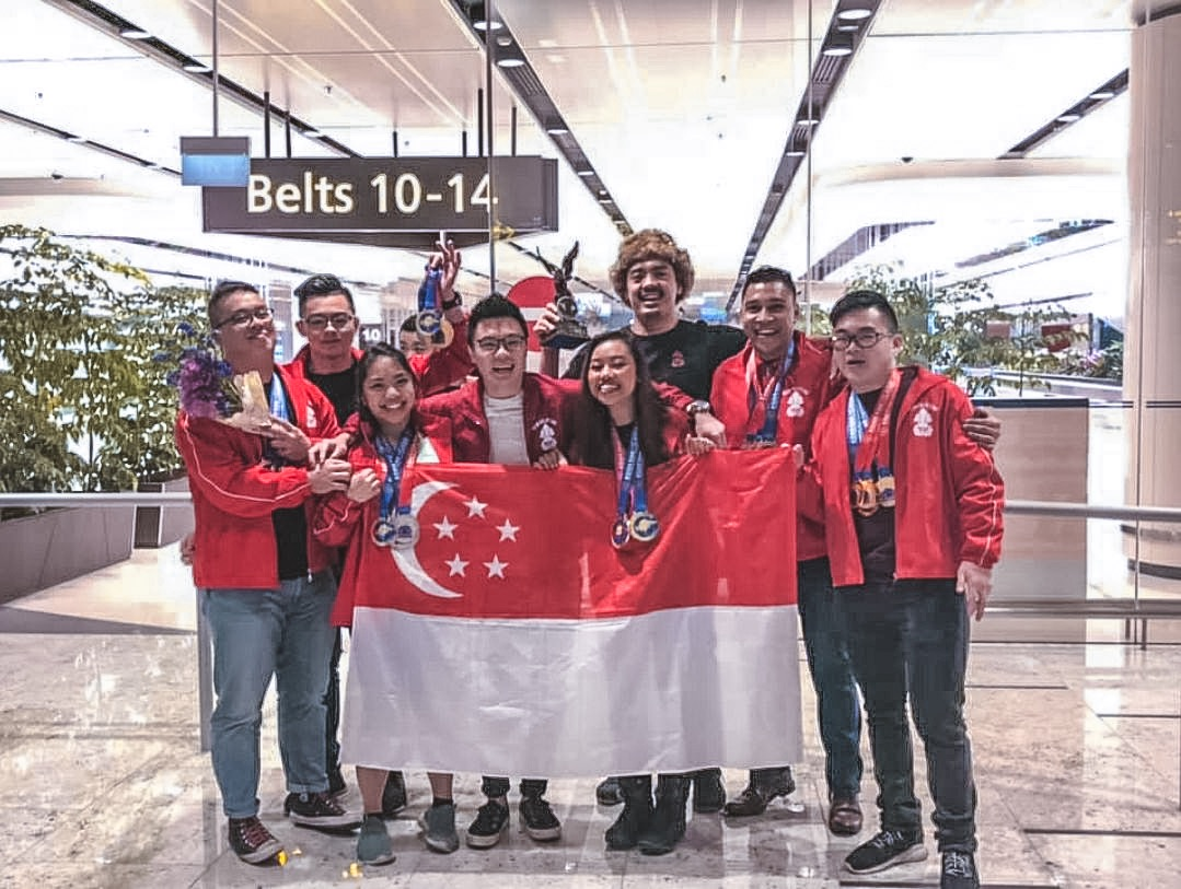 Yap at Changi Airport with his athletes after the Asian Championships in 2018